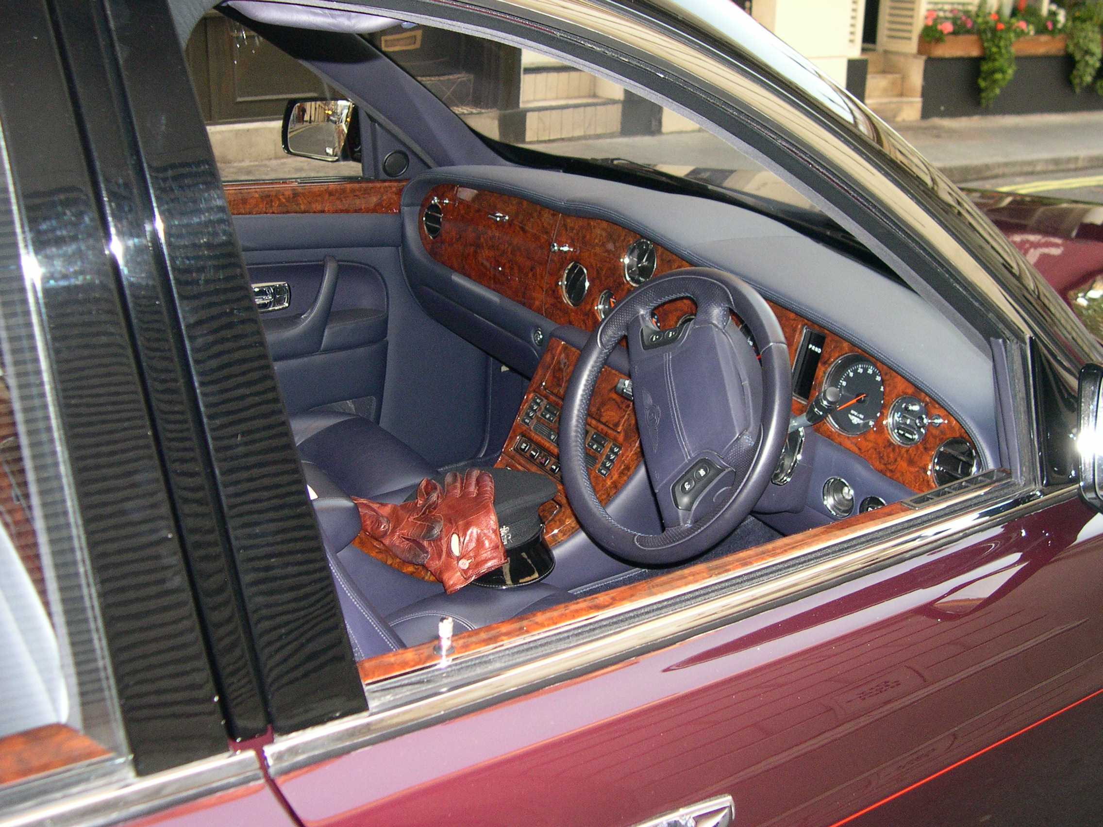 Queen Elizabeth II's 2002 Bentley State Limousine, one of two